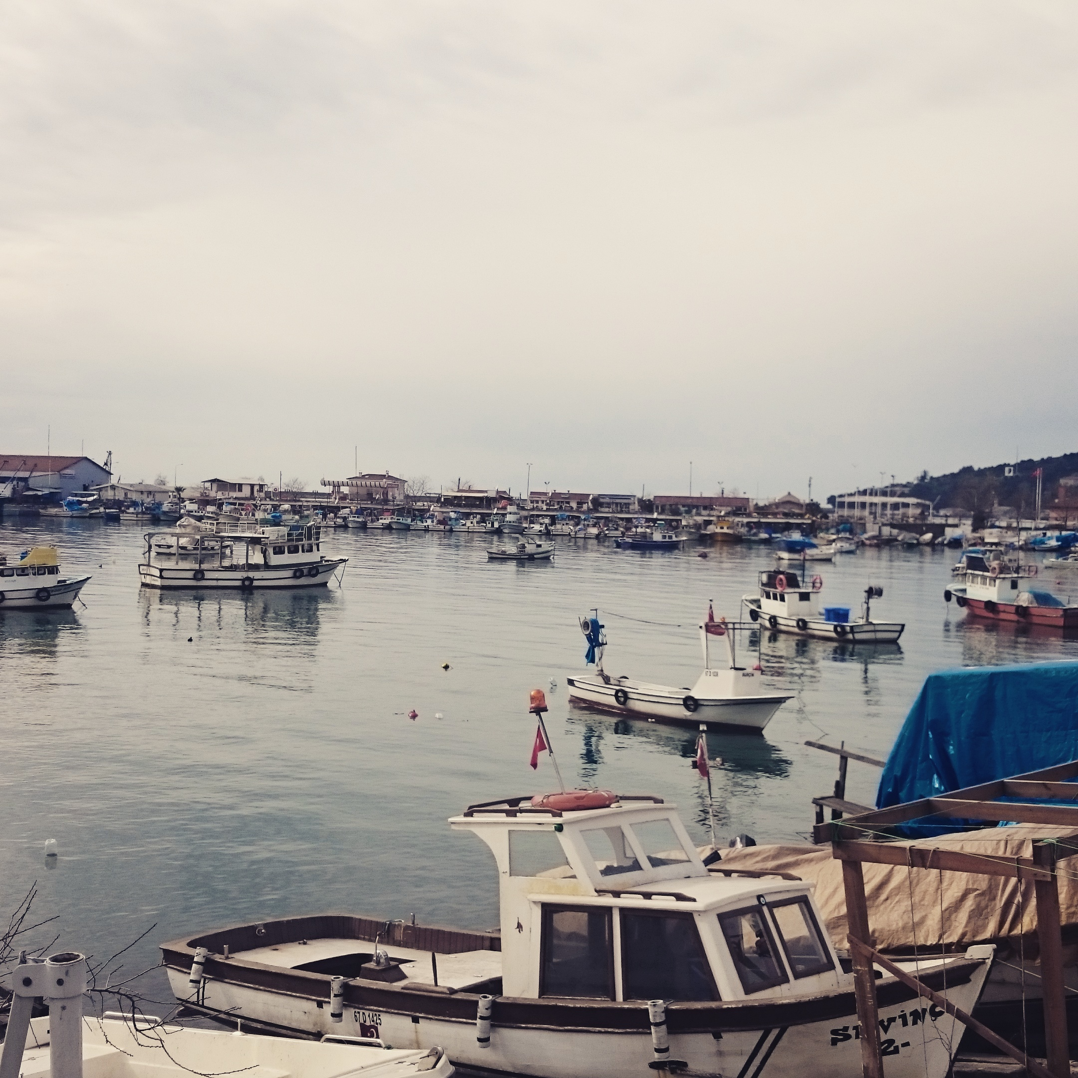 A photo from the Ereğli district, 8 February 2015.